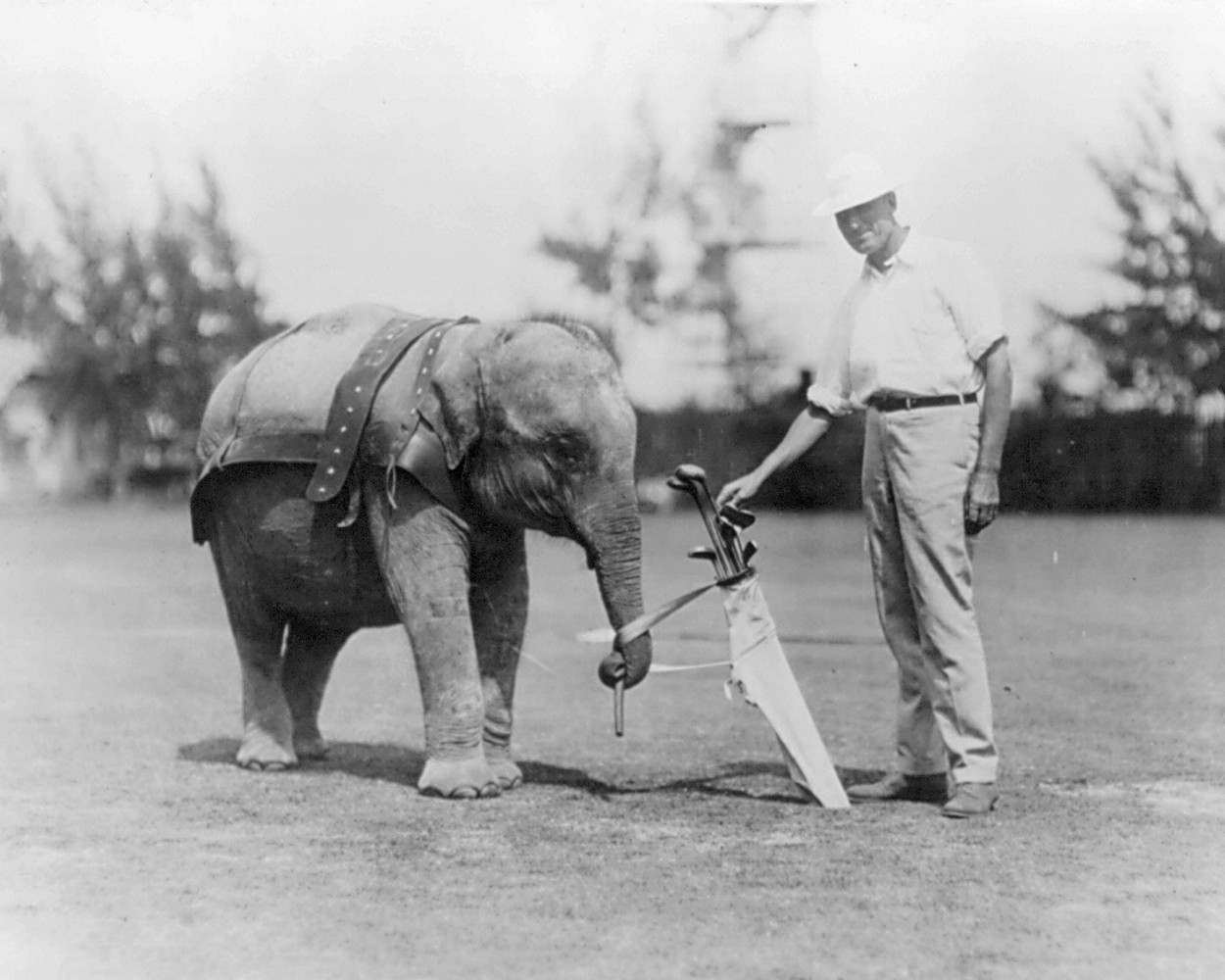 Elephant caddie on Miami, Florida, golf course in 1922